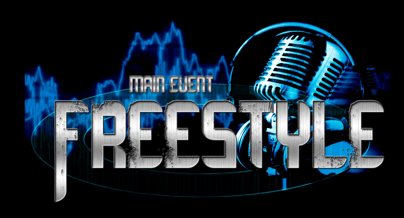 MECW Freestyle Logo